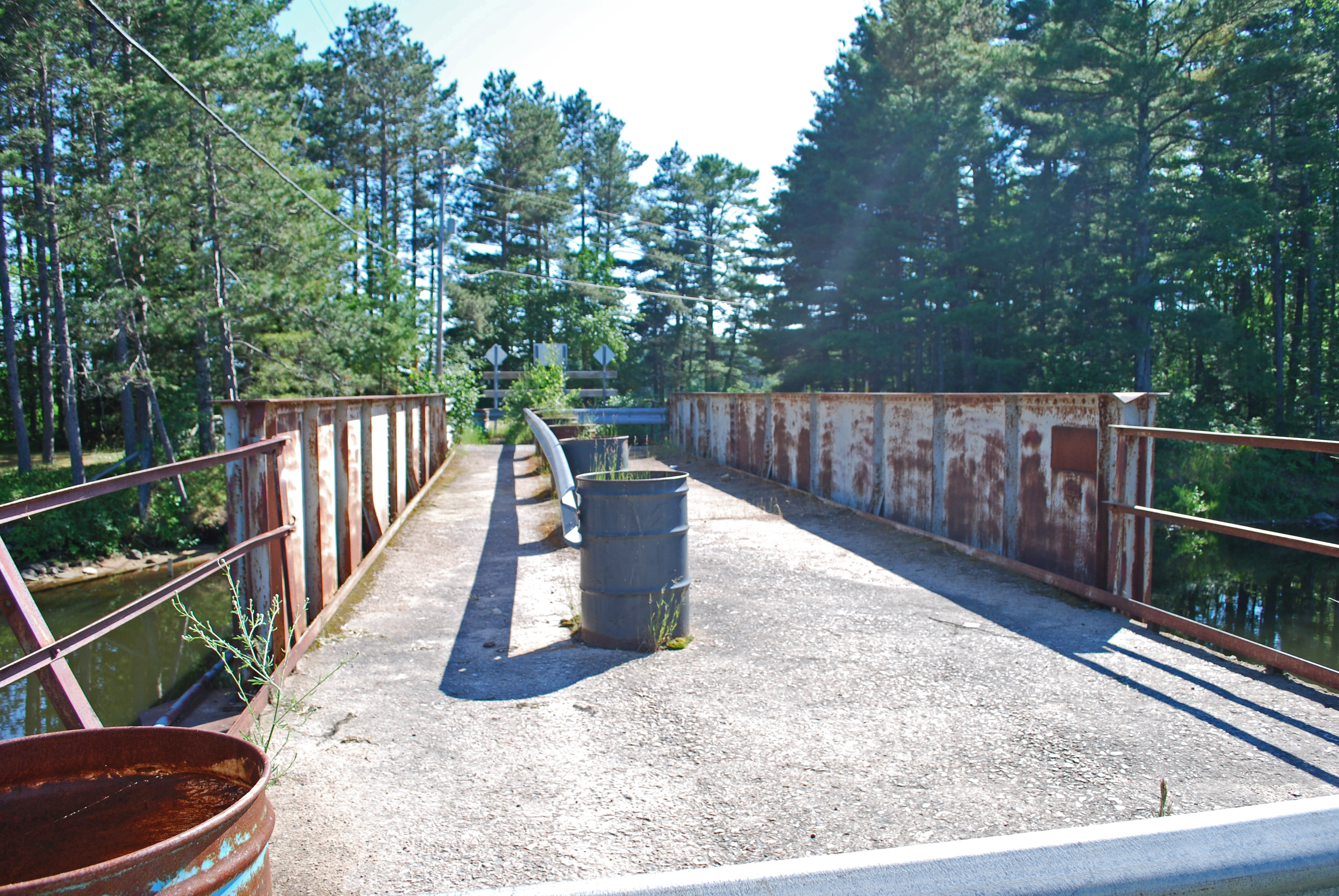 M94 AU Train River Bridge Au Train MI